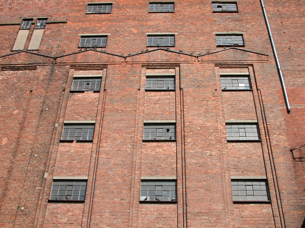 Silowand. Braunschweig, Germany: Rye Mill Lehndorf silo wall.